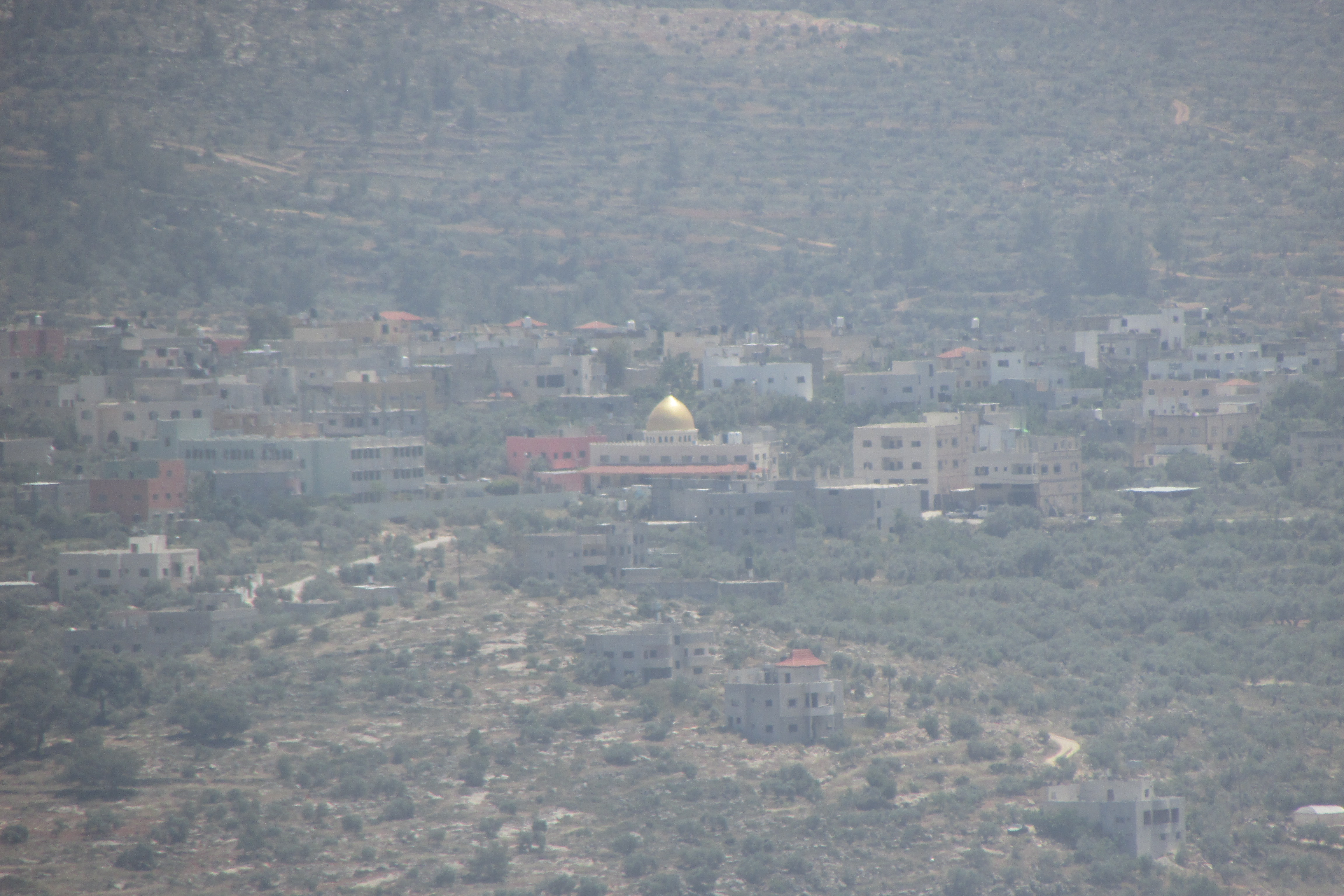 Beita el-Fauqa from the north